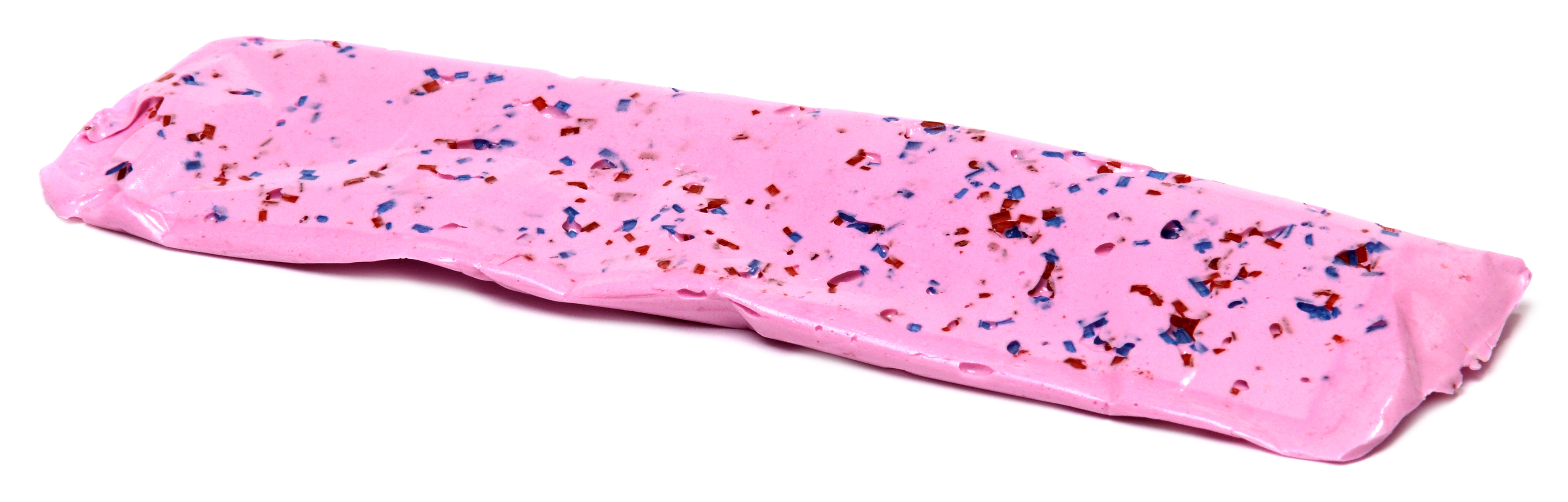 A slab of Sparkle Cherry Laffy Taffy, made by the Willy Wonka Candy Company.